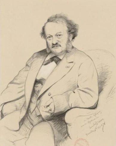 French tenor Gilbert Duprez (1806-1898) by Alfred Lemoine (1824-1881) after a drawing by Carolus-Duran (1837-1917).